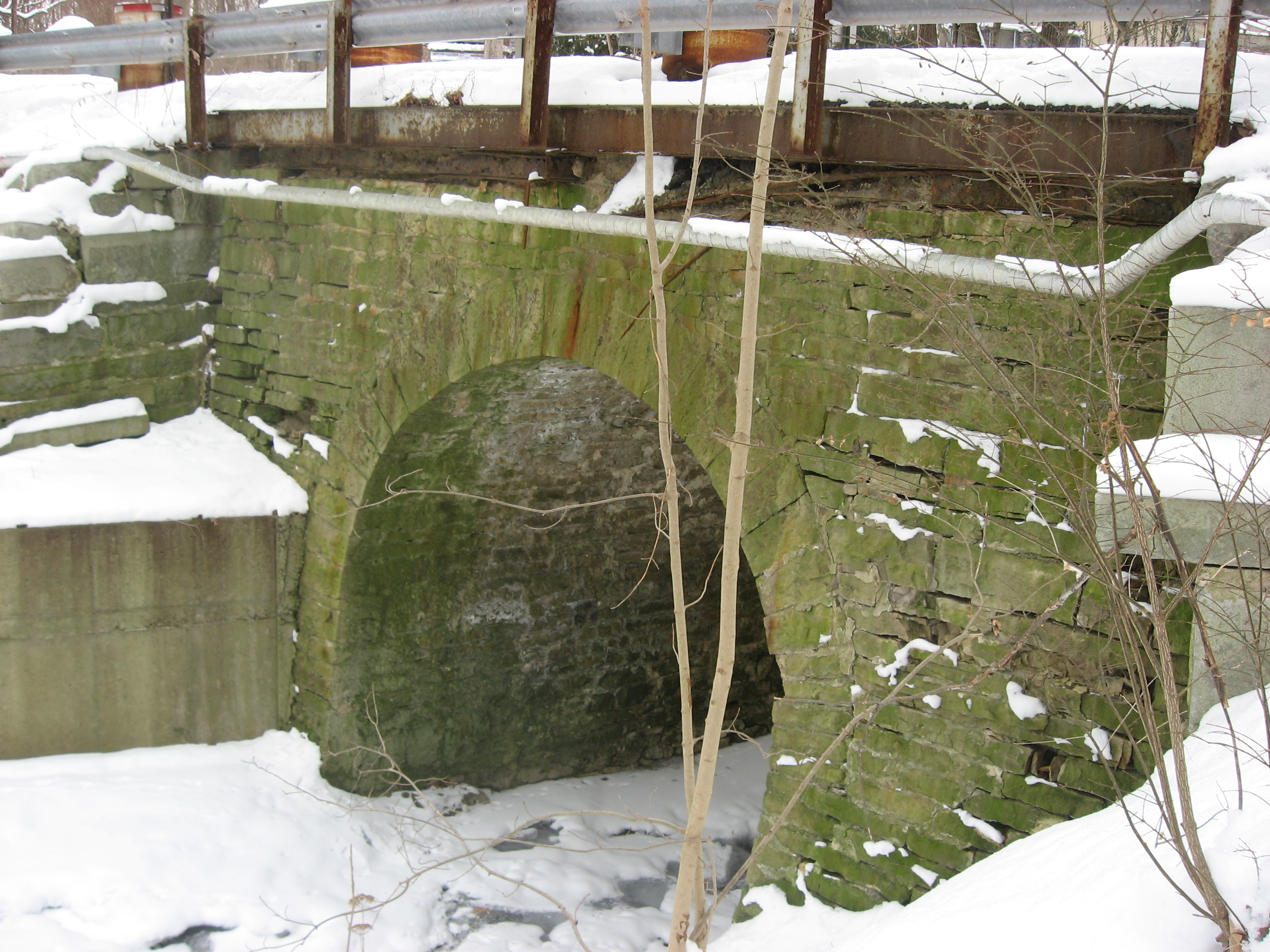 Northern (upstream) side of the Old Enon Road Stone Arch Culvert, which carries Rocky Point Road over Mud Run east of Enon in Mad River Township, Clark County, Ohio, United States. Built in 1871, it is listed on the National Register of Historic Places.